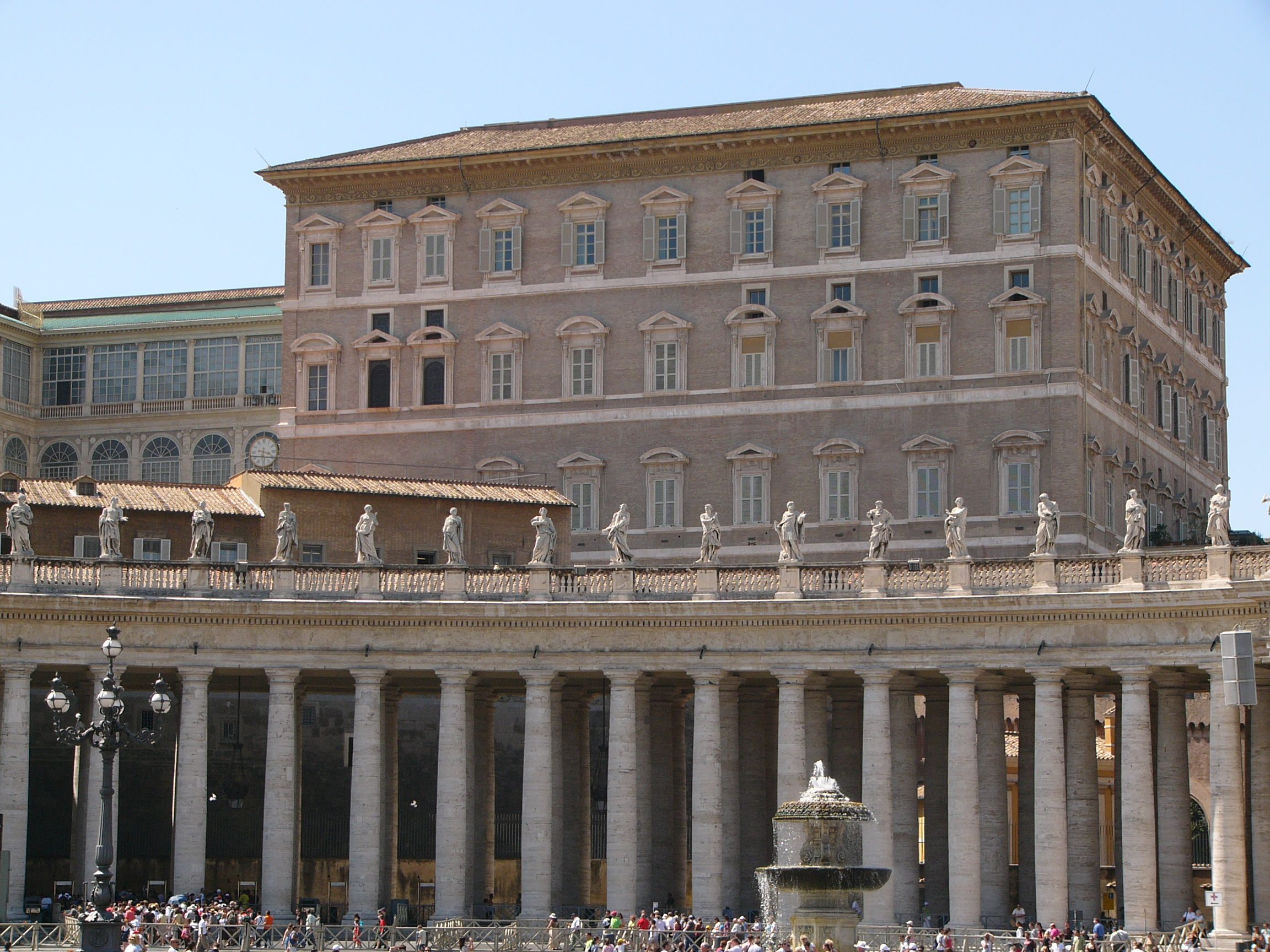 Apostolic Palace